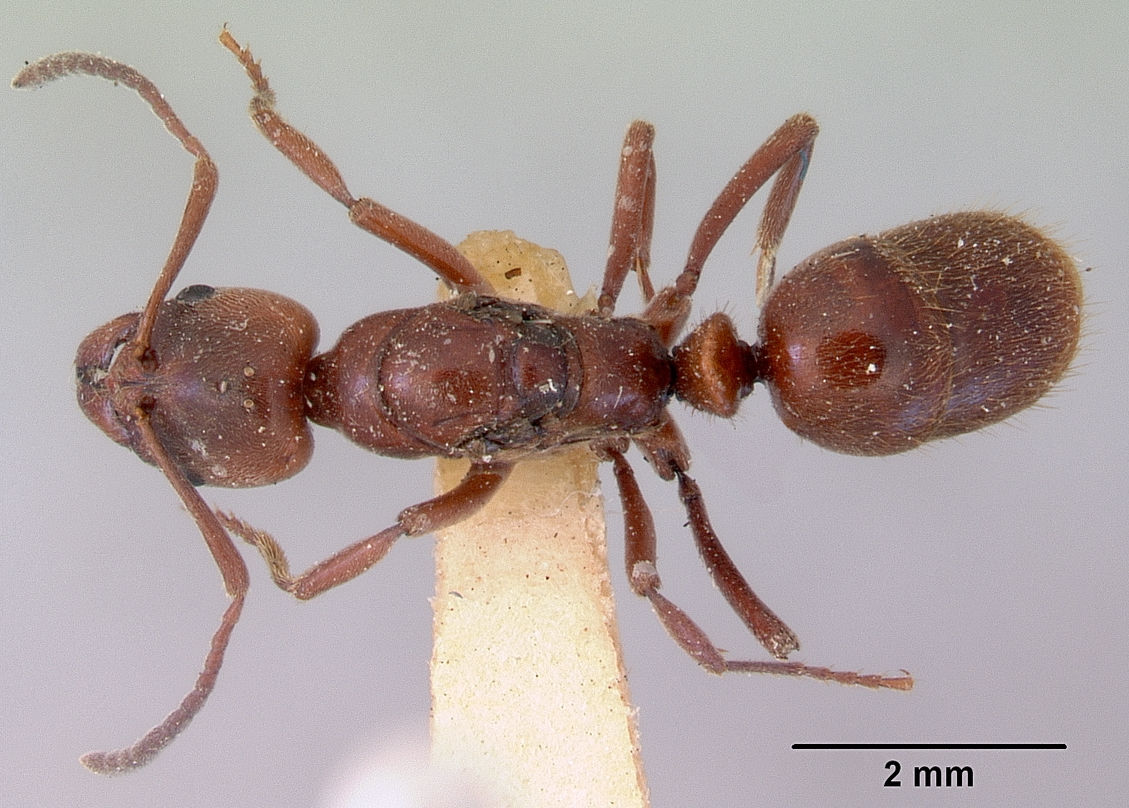 Dorsal view of ant Pachycondyla castaneicolor specimen casent0172338.